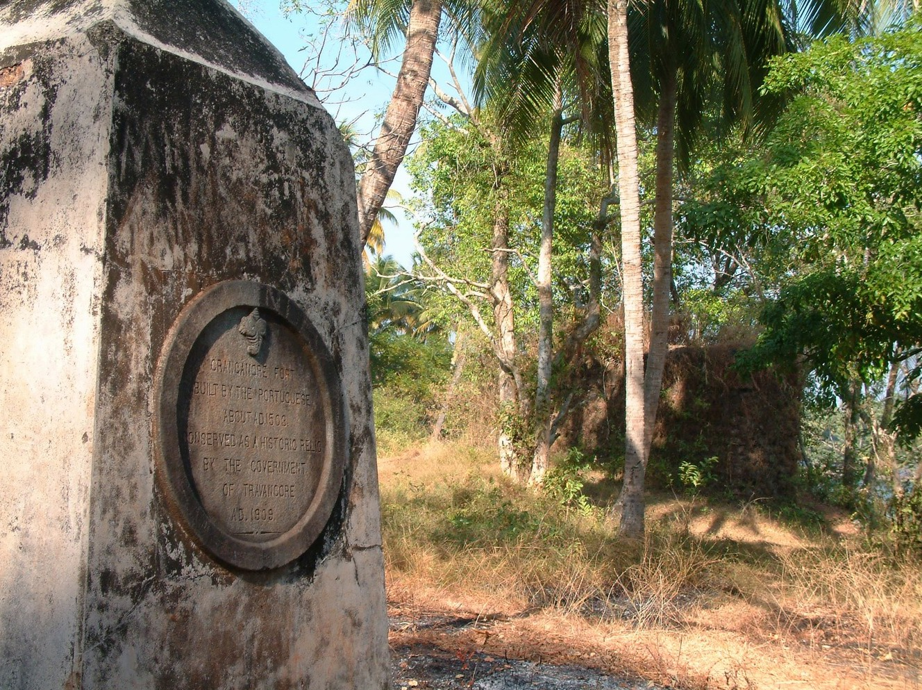 Relics of Cranganore Fort